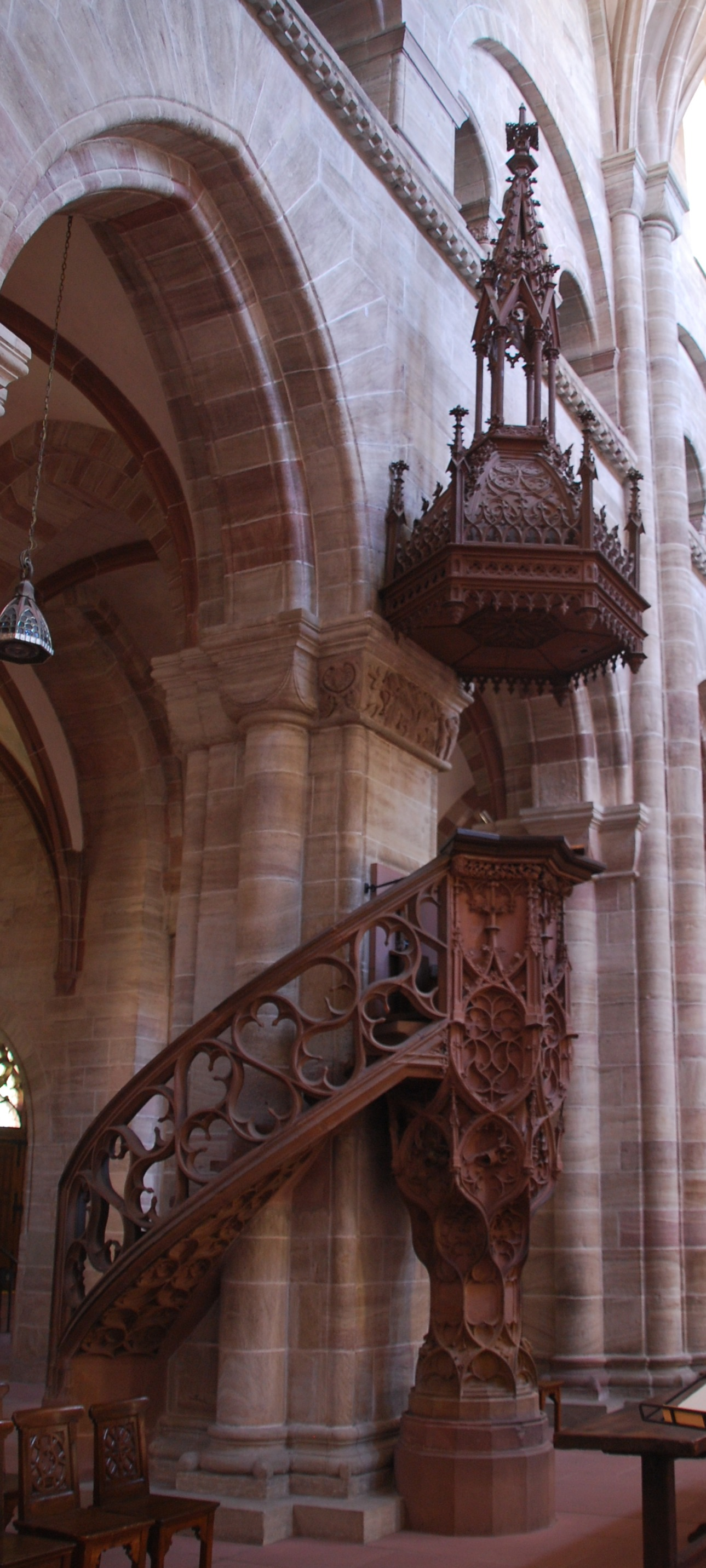 Basel Münster, late gothic pulpit